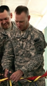 Colonel John Garrity, the Camp Commandant of the Bagram Theater Internment Facility cuts one of the ribbons at the opening ceremony for the new facilities that replaced the primitive "temporary" facilities that were used for nine years. The caption of this similar, but lower-resolution images says: "Col. Michael McCormick, Neil Helliwell, Maj. Gordon Bell, Lt. Col. Michael Rounds, Col. John Garrity, and Nelson Mora cut a ceremonial ribbon during the completion of construction celebration for the Shamali Detention Facility. USACE photo."